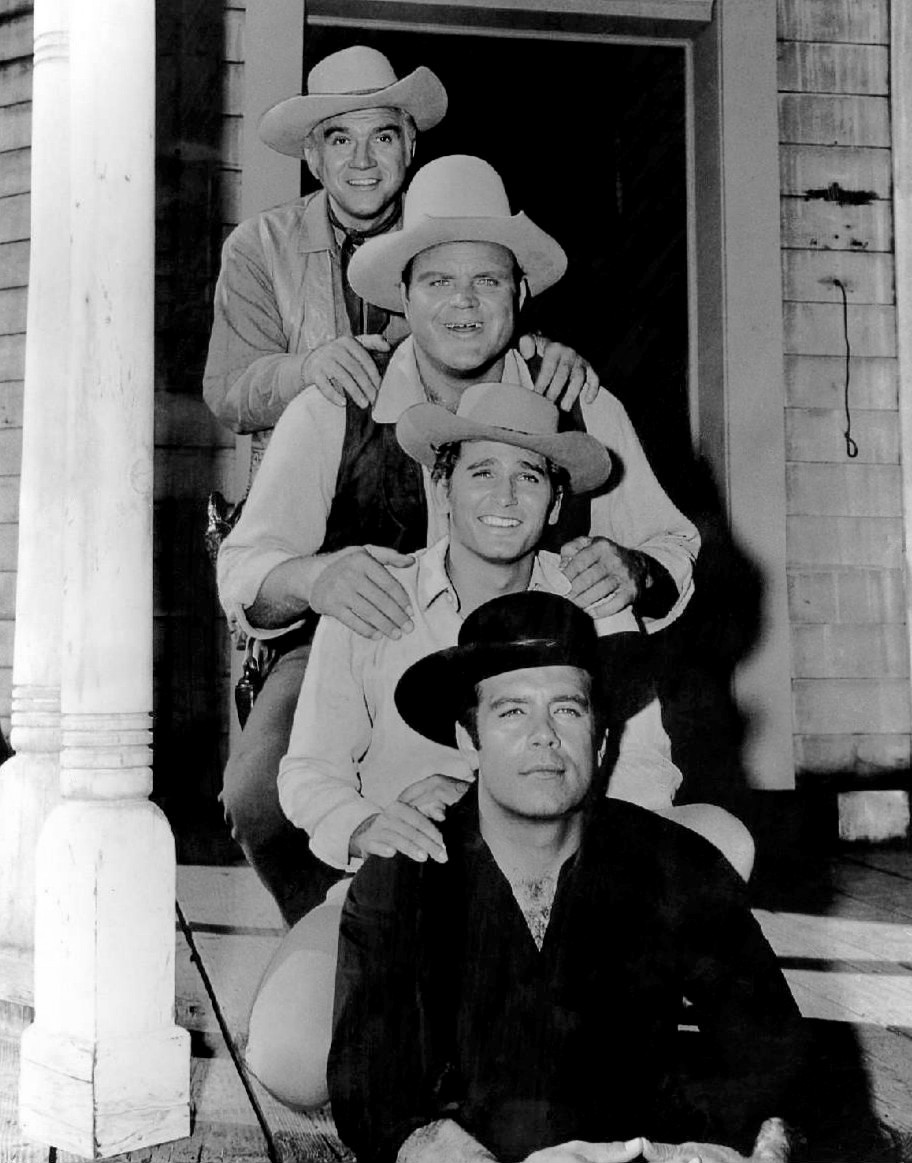 Photo of the full cast of the television program Bonanza on the porch of the Pondarosa from 1962. From top: Lorne Greene, Dan Blocker, Michael Landon, Pernell Roberts. This episode, "Miracle Maker", aired in [ May 1962.